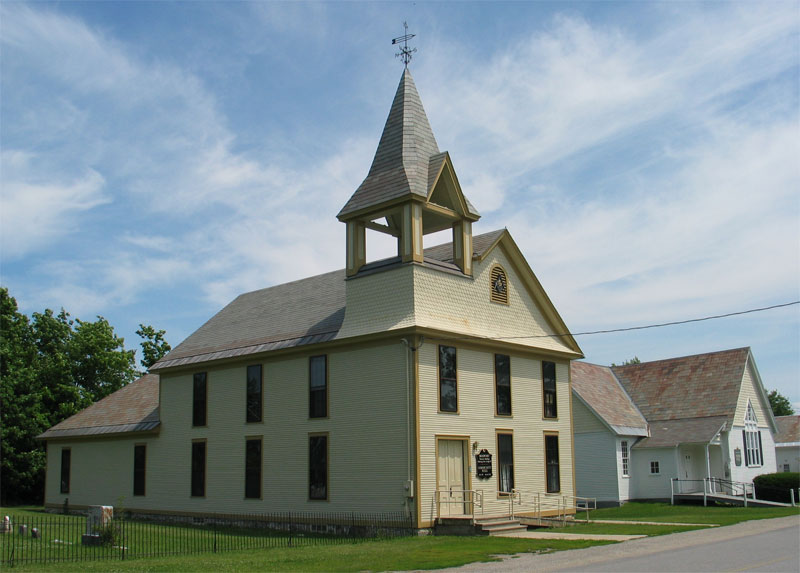 Description: Photograph of Bridport community hall Source: Photograph taken by Jared C. Benedict on 04 Jul 2004. Copyright: © Jared C. Benedict.